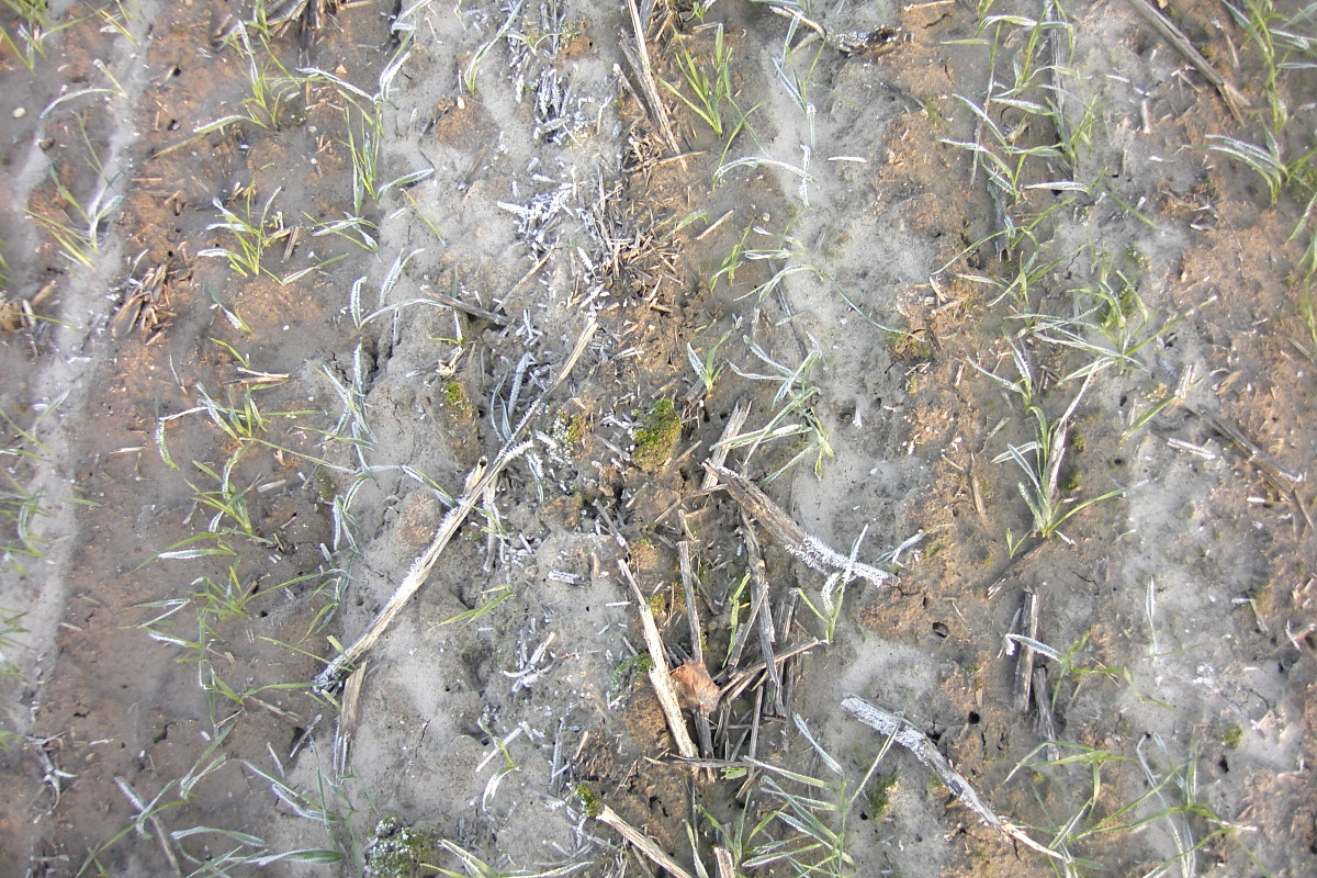 winter wheat